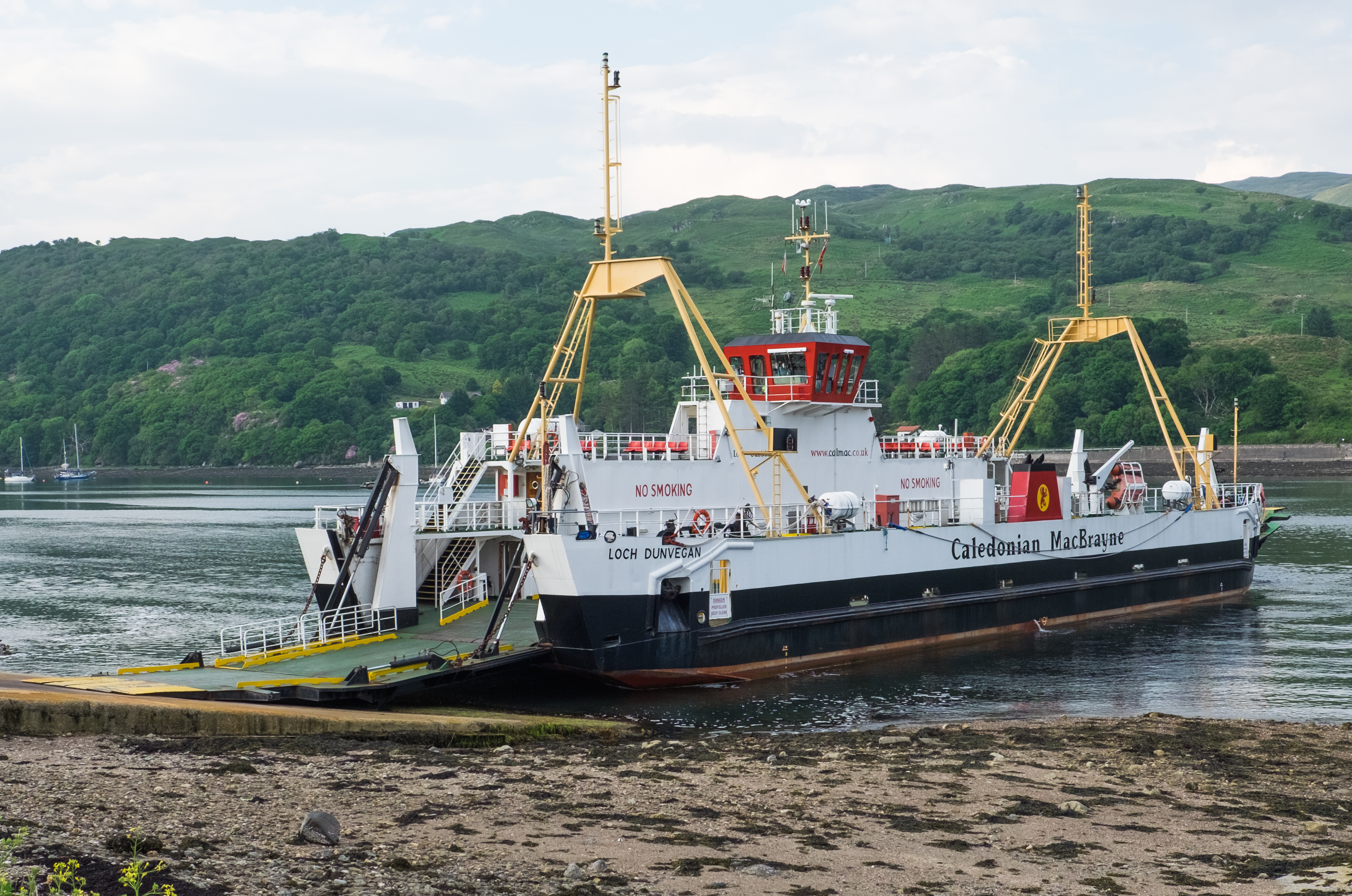 MV Loch Dunvegan operated by Caledonian MacBrayne on the Colintraive to Rhubodach ferry route between the Scottish mainland and the Isle of Bute. Pictured at Rhubodach slip, Isle of Bute.